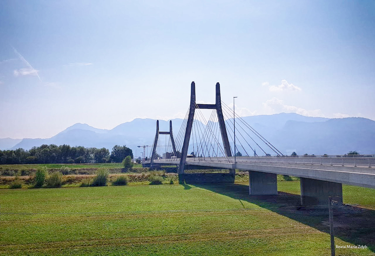 The Bridge on the River Rhein 2018